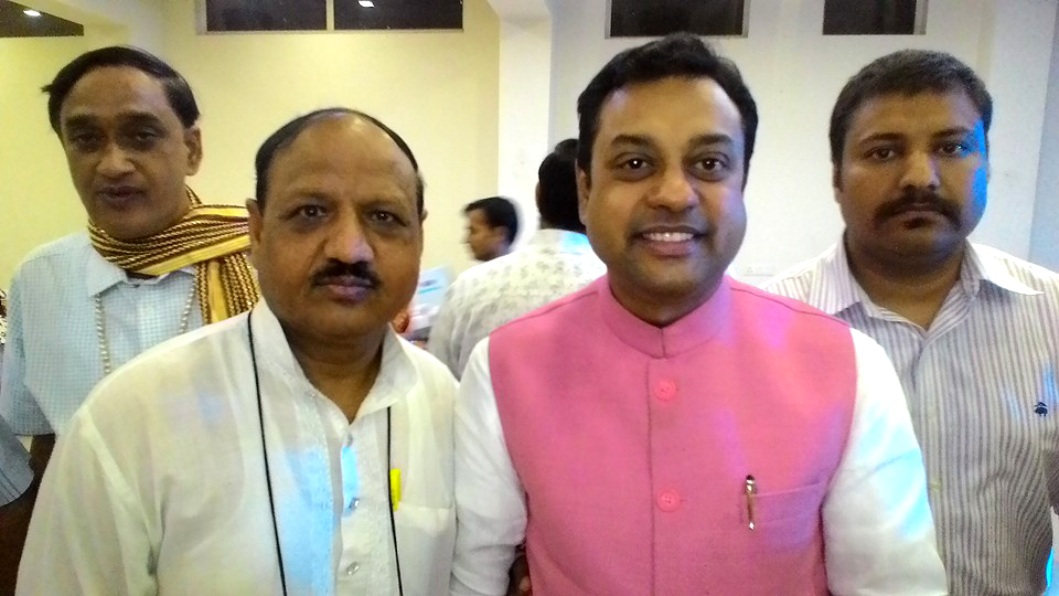 Somit patra and dr harit